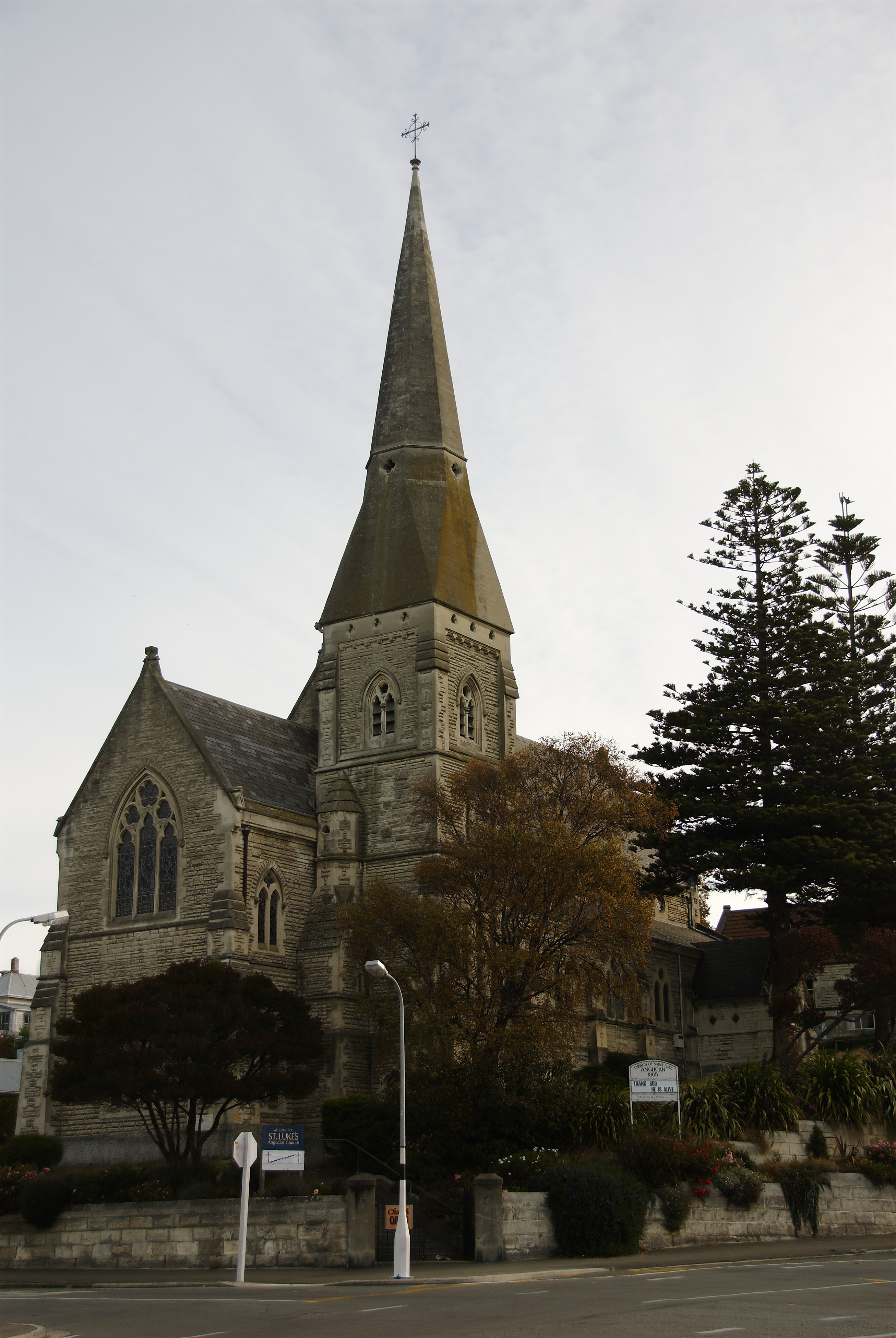 St Luke's Anglican Church, Oamaru, New Zealand. It is a Category I historic place on the register of the New Zealand Historic Places Trust.